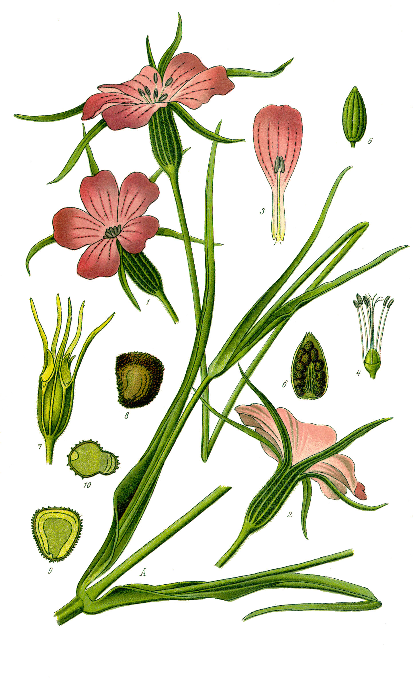 Name Agrostemma githago Family Caryophyllaceae Clean version of Image:Illustration Agrostemma githago0.jpg